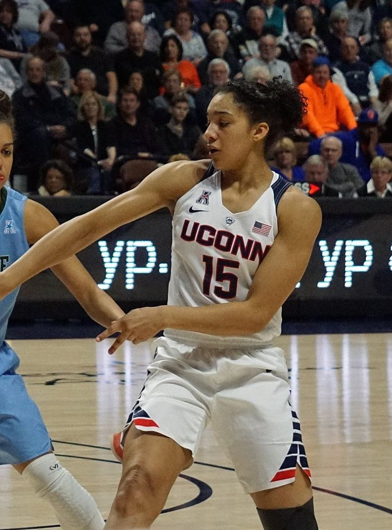 Gabby Williams, UConn basketball player